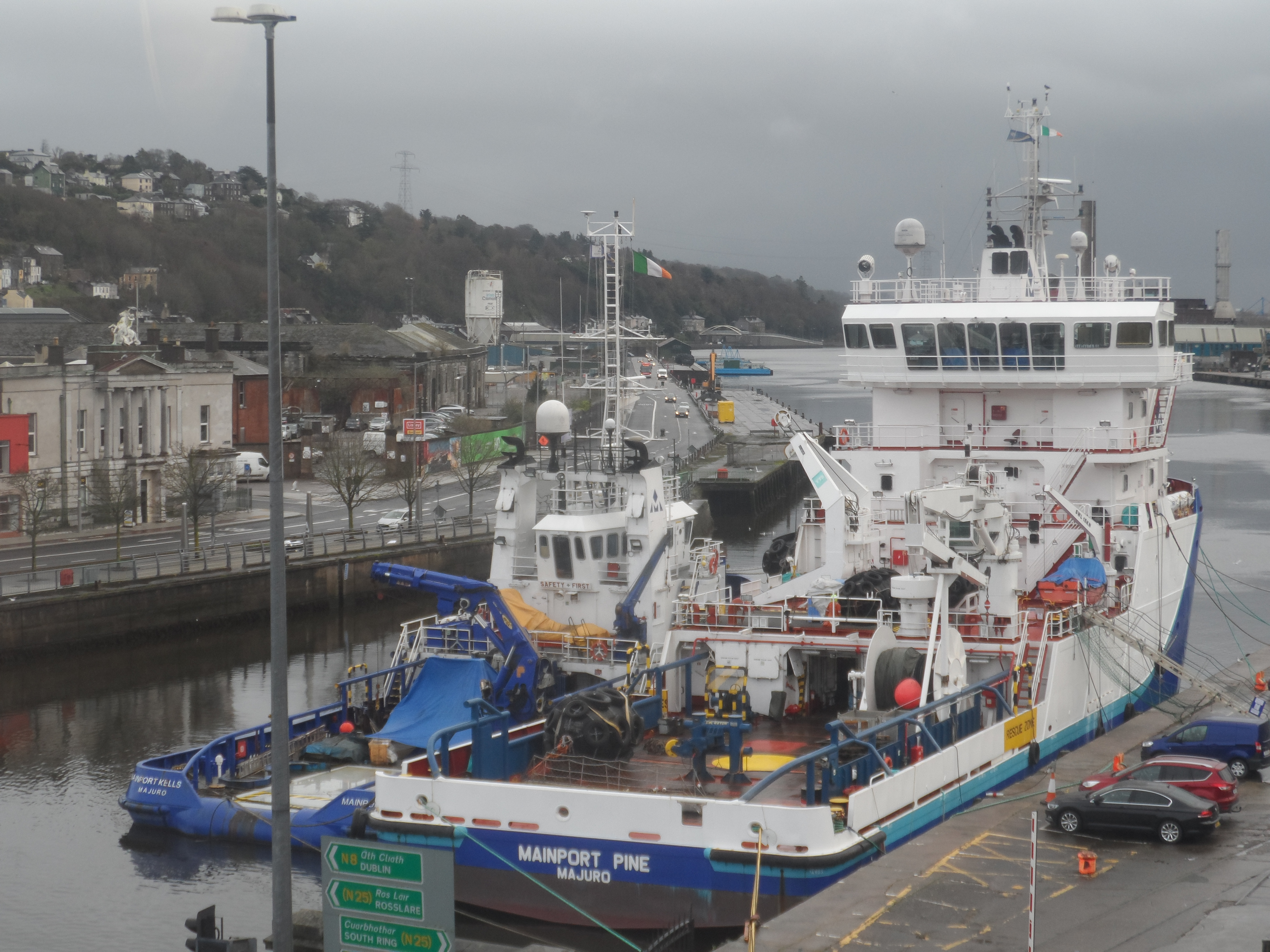 Ship in Cork Port